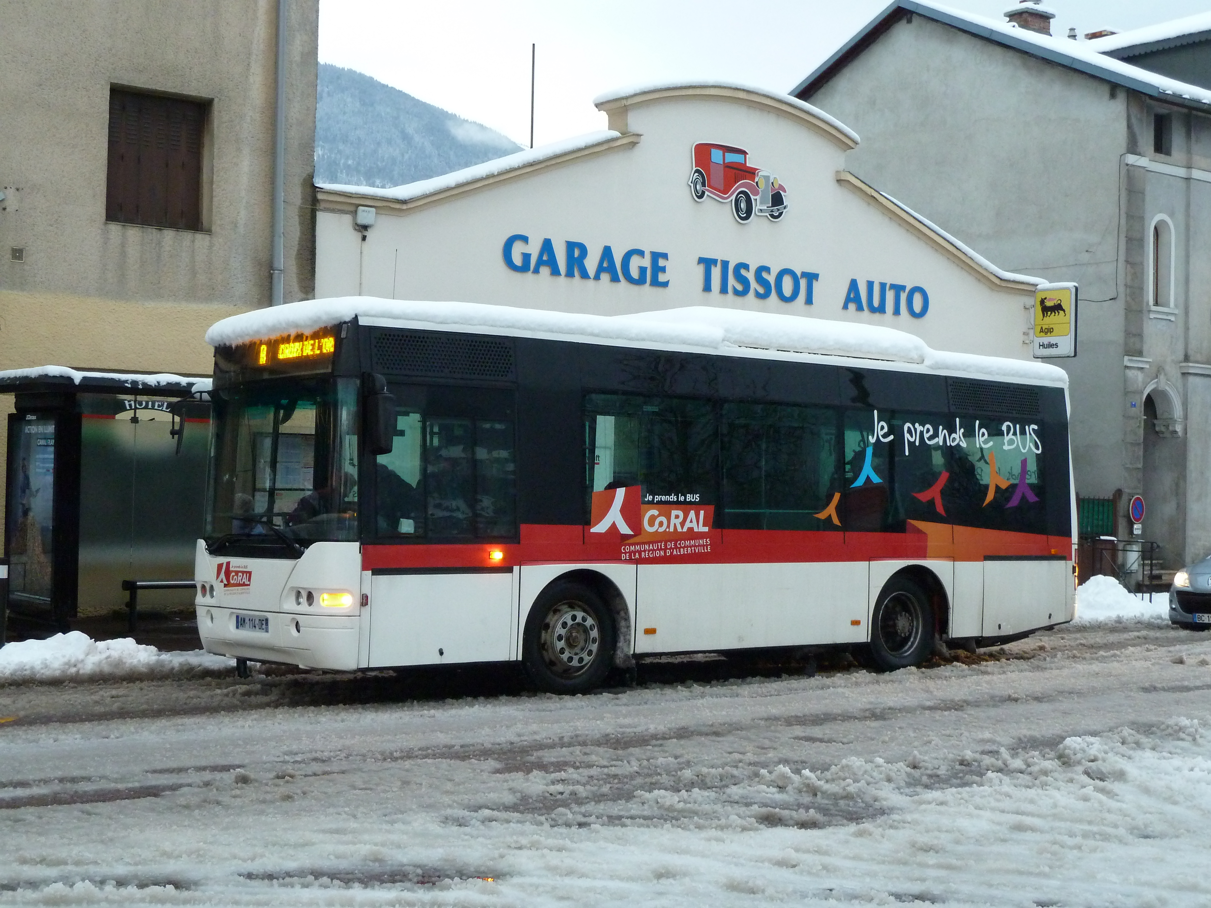 A Neoplan N4407 (n°394 of the French agglomeration community Co.RAL), carrying out the line A of the bus network Je prends le BUS — Chiriac, Albertville↔Croix de l’Orme, Albertville — and stopped at the call Gare SNCF (Albertville, France) on December 30, 2011.